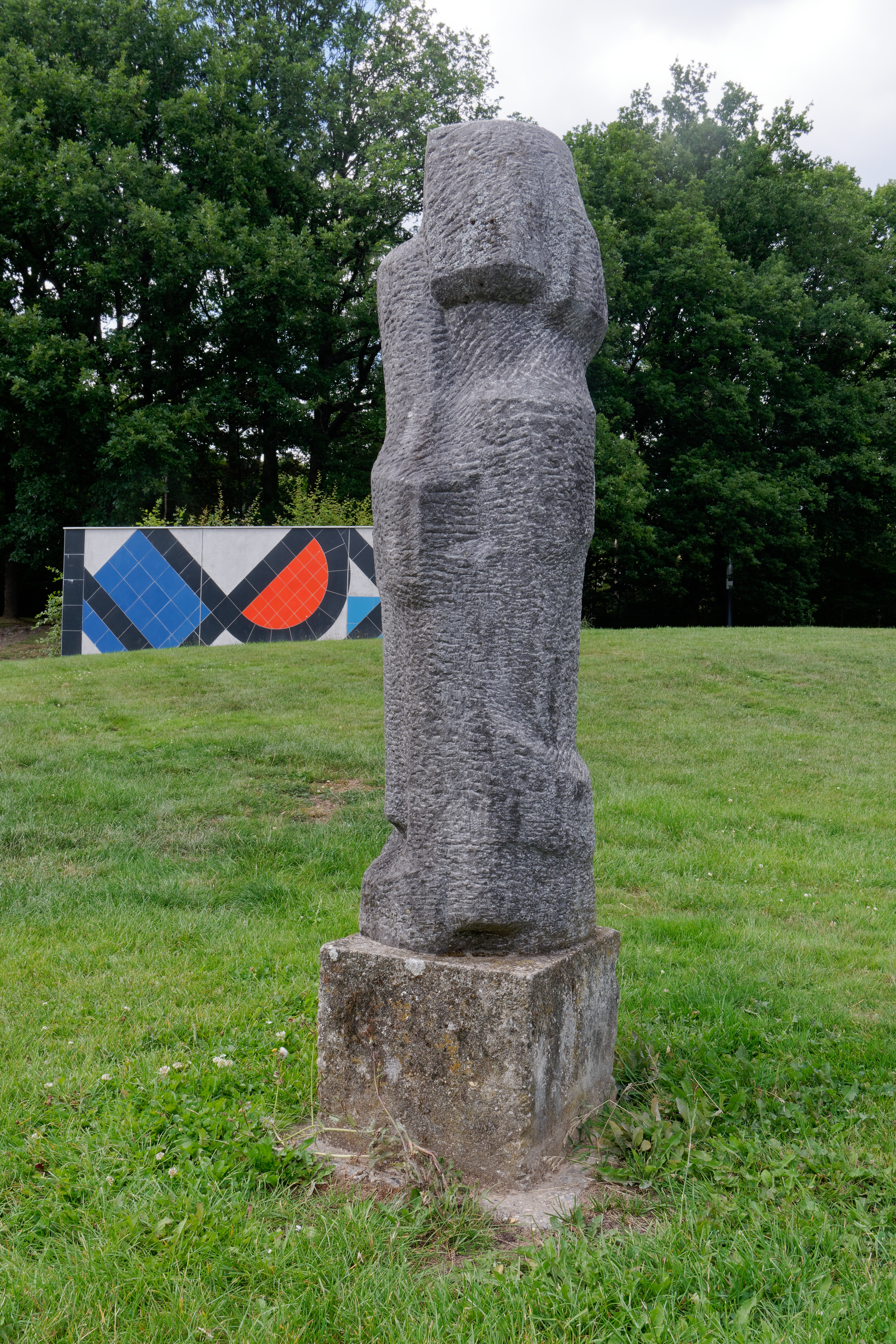 Work 'Le souvenir' in 1979 by André Welliquet This photo of immovable heritage has been taken in the Walloon Region